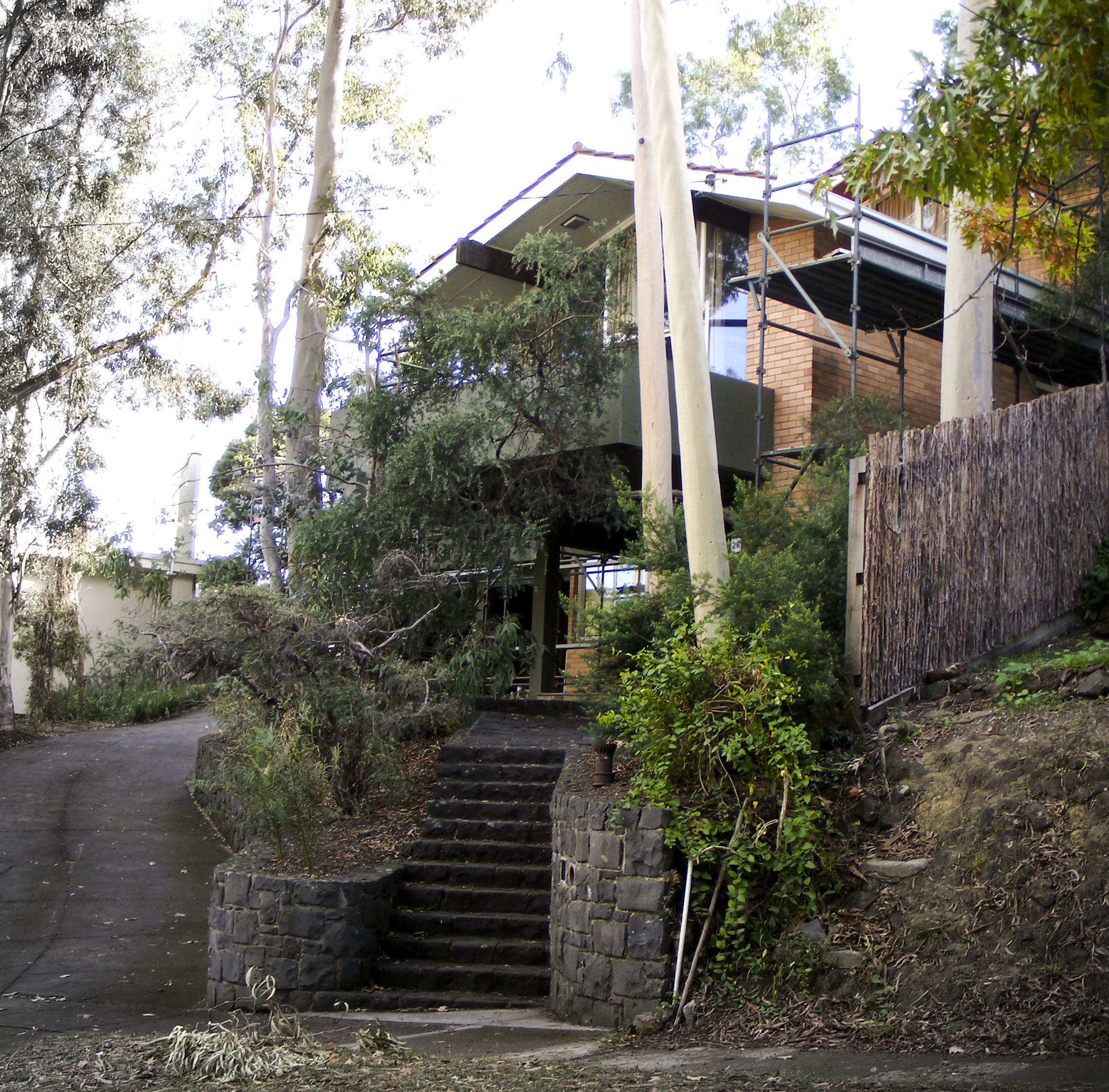 Freiberg House, Kew Victoria Front View